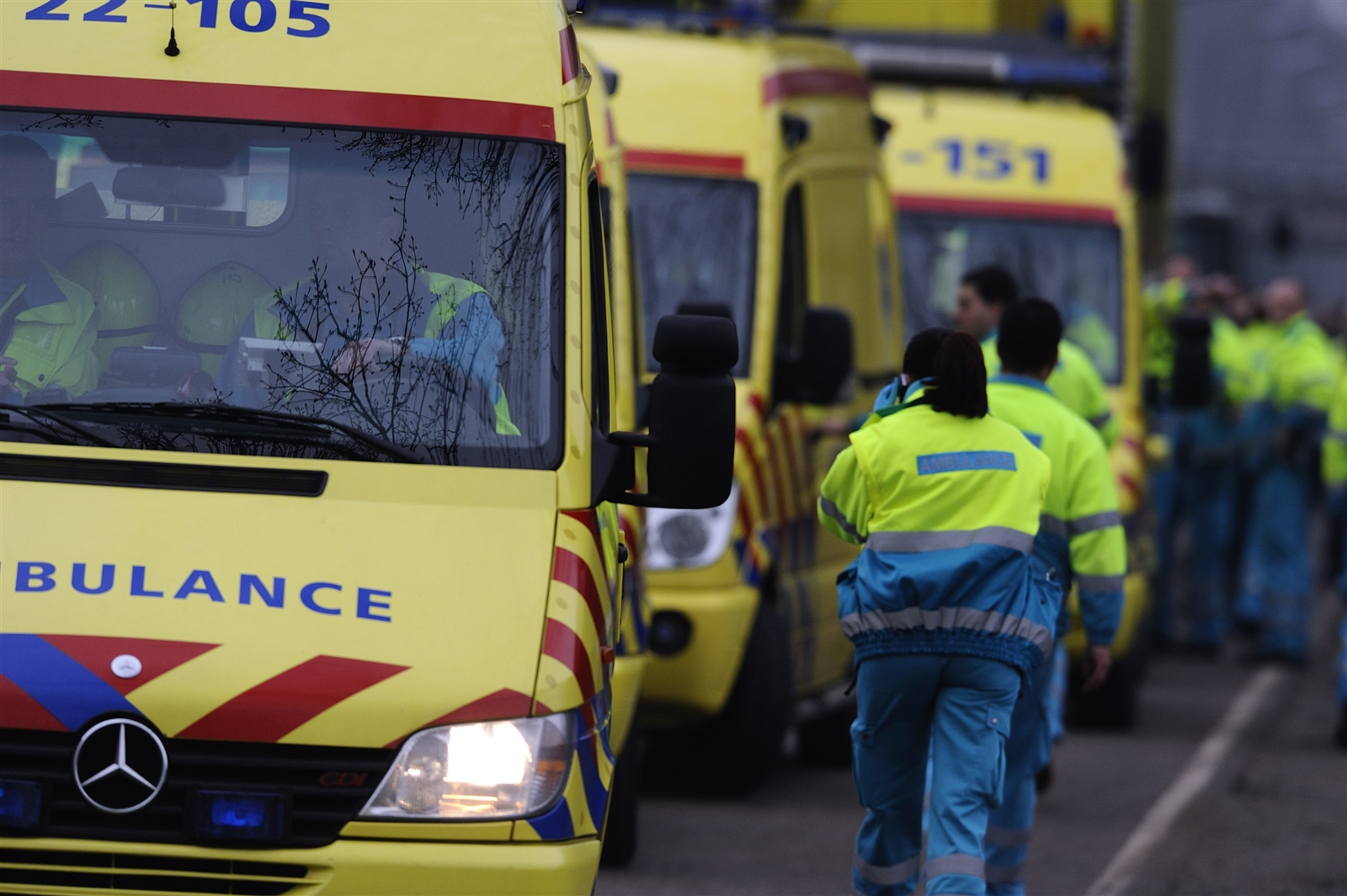 Ambulances at the crash site of Turkish Airlines flight TK 1951 at Schiphol, Amsterdam, The Netherlands. February 25, 2009; Copyright Fred Vloo / RNW